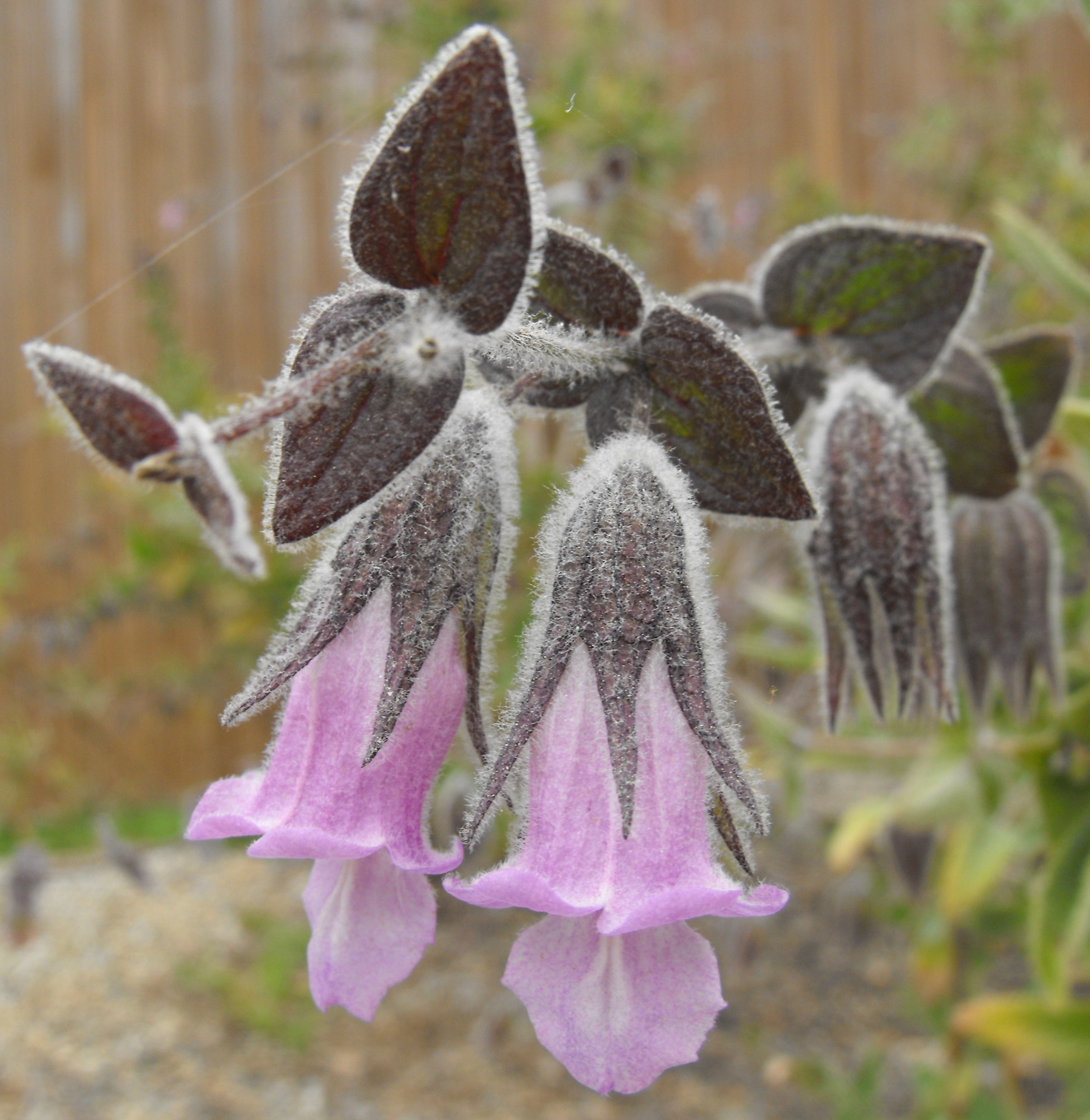 Lepechinia fragrans 'El Tigre' — Fragrant pitcher sage, cultivar 'El Tigre.' At the Rancho Santa Ana Botanic Garden in Claremont, Southern California. Identified by sign.